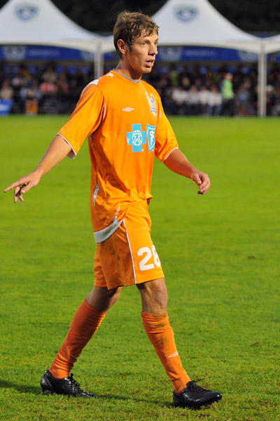 Picture of John Cunliffe. Wilson Wong photo.